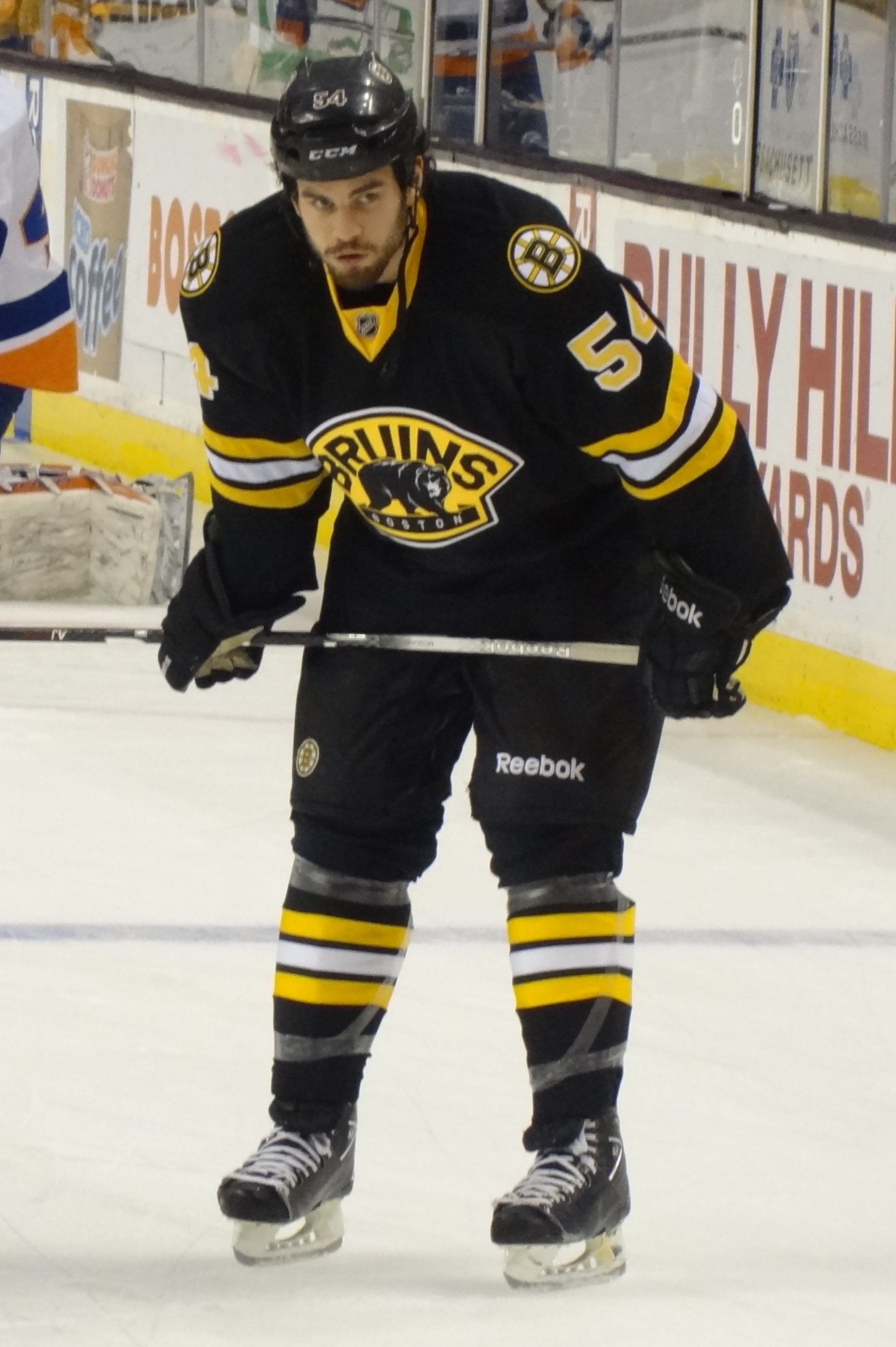 Adam McQuaid at warm-ups prior to the Bruins / Islanders game at TD Garden, Boston, MA.